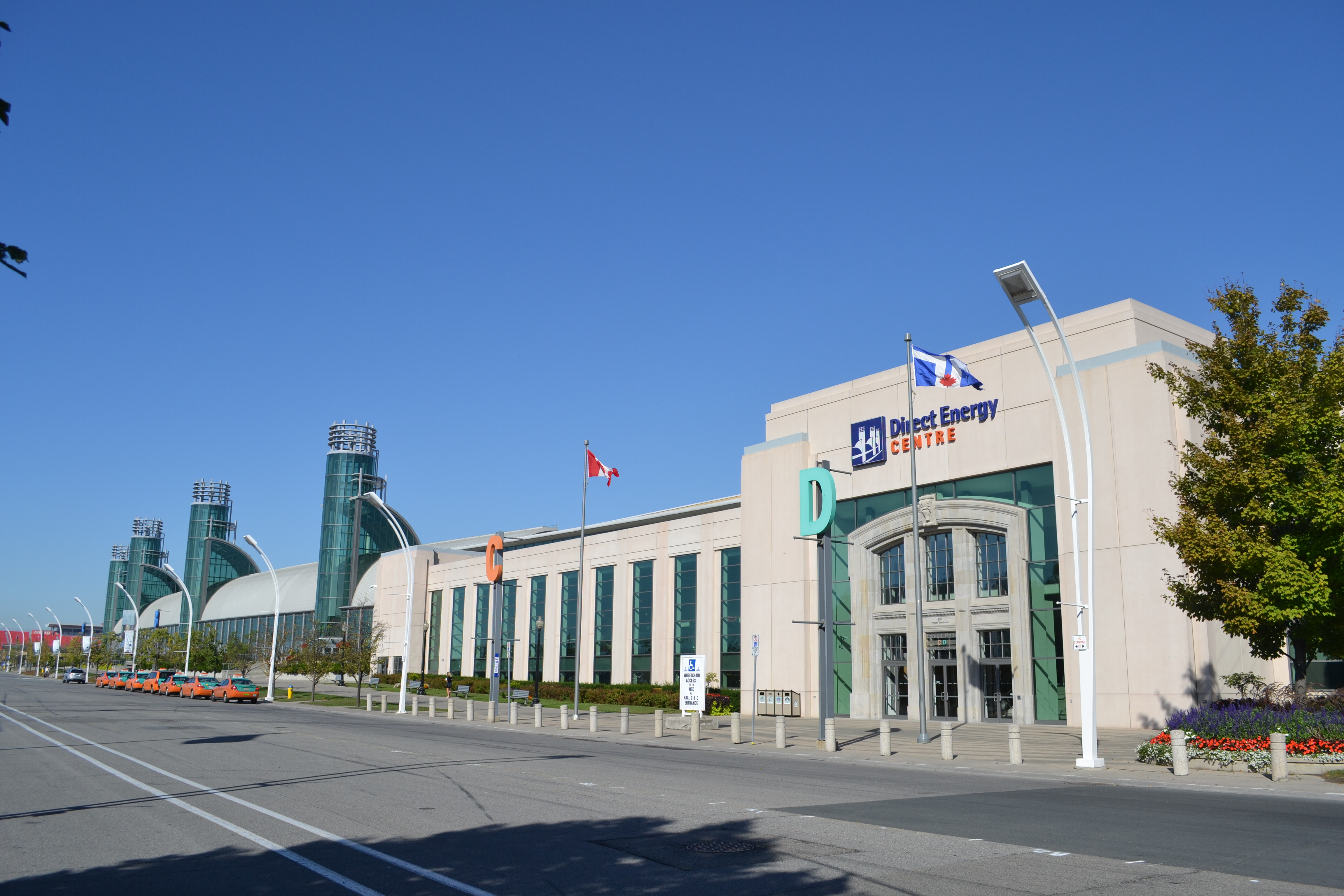 Direct Energy Centre